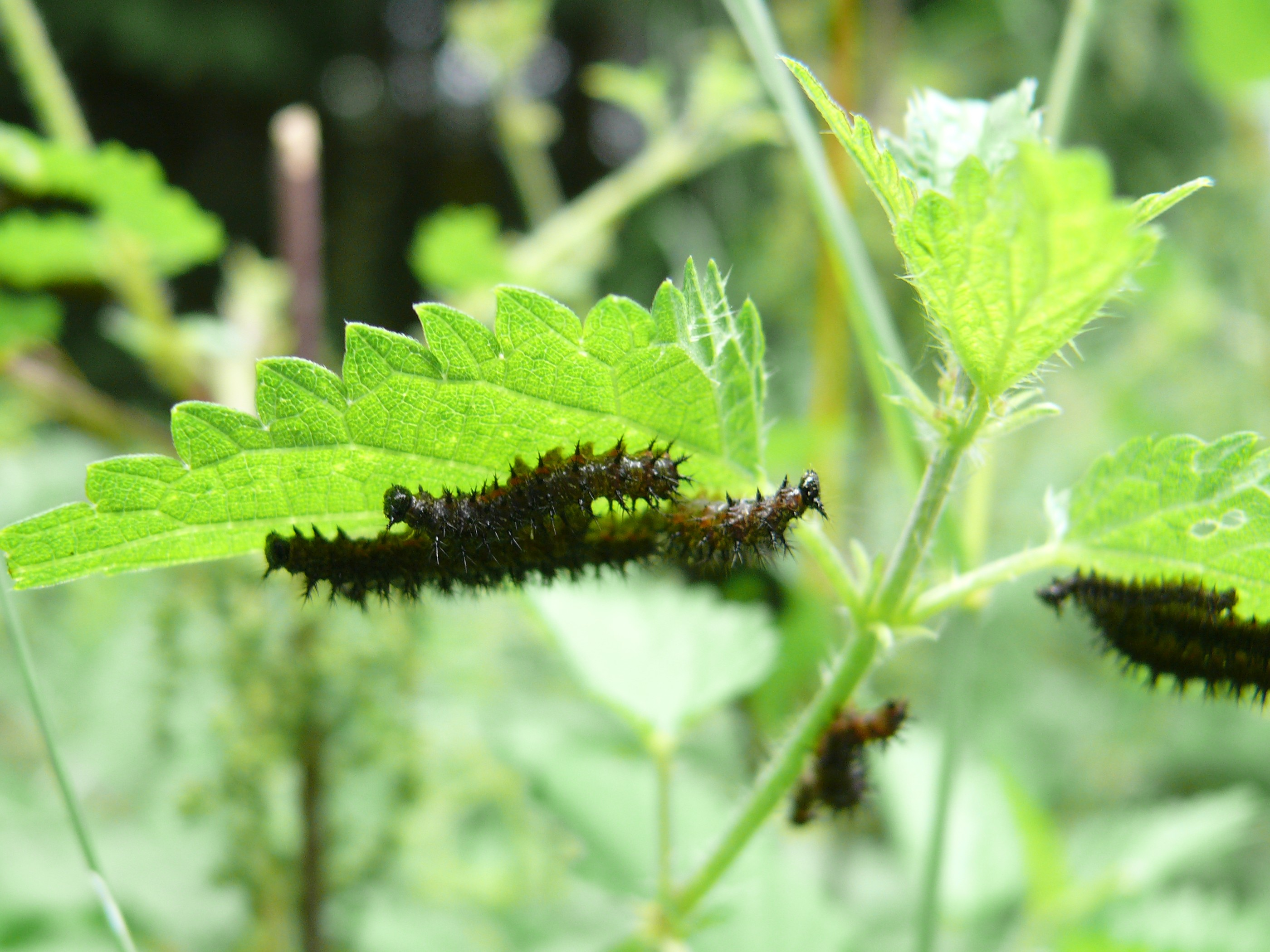 Young caterpillars of the Map butterfly, photographed in Eberberger Forst, Bavaria, Germany